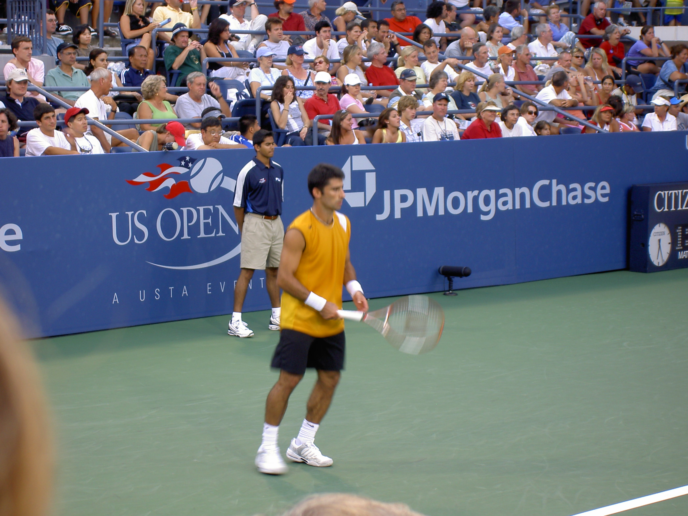 Sargis Sargsian, tennis player from Armenia, at the US Open in 2004.